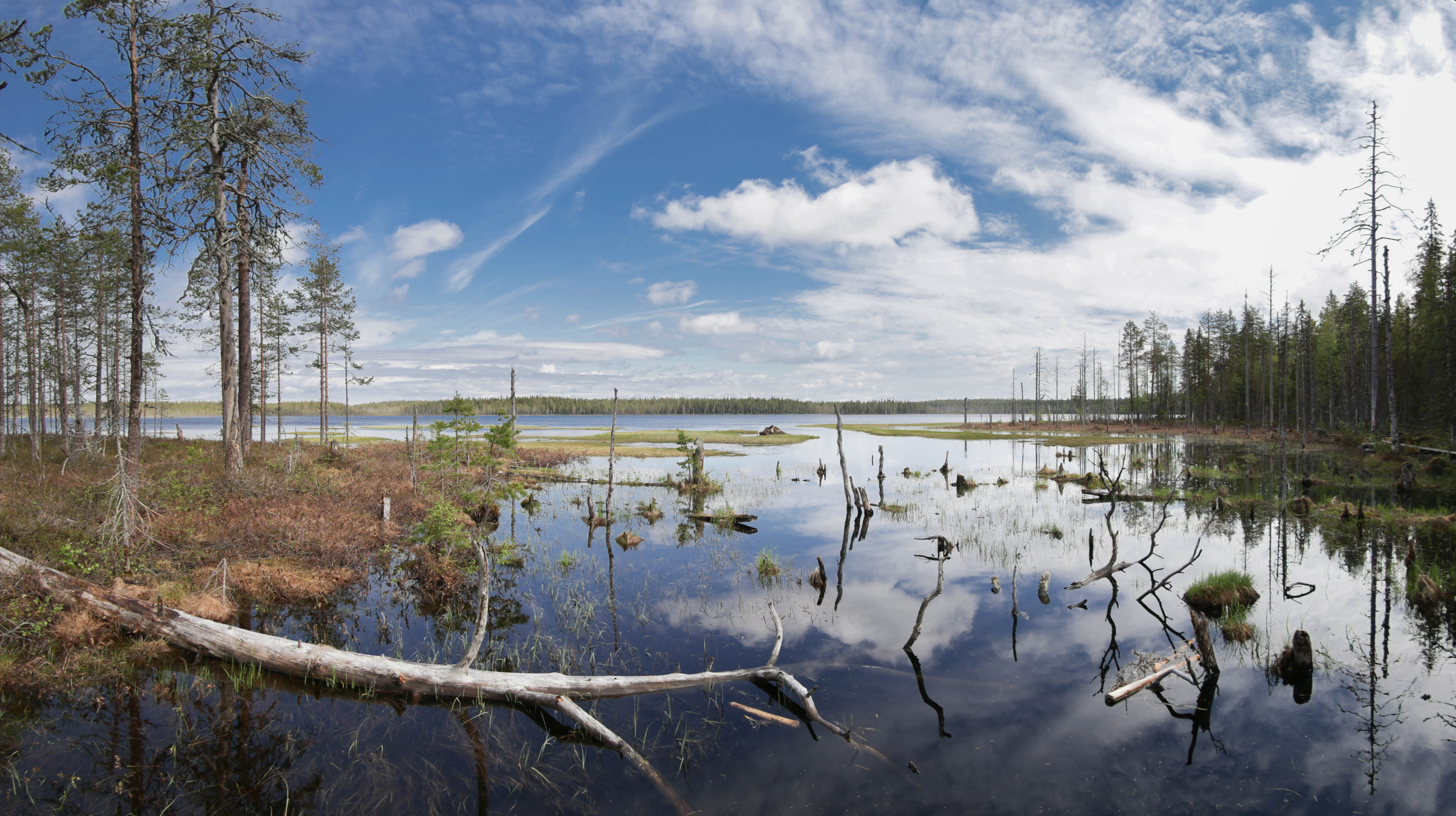 Elimyssalo nature reserve, Kuhmo, Finland